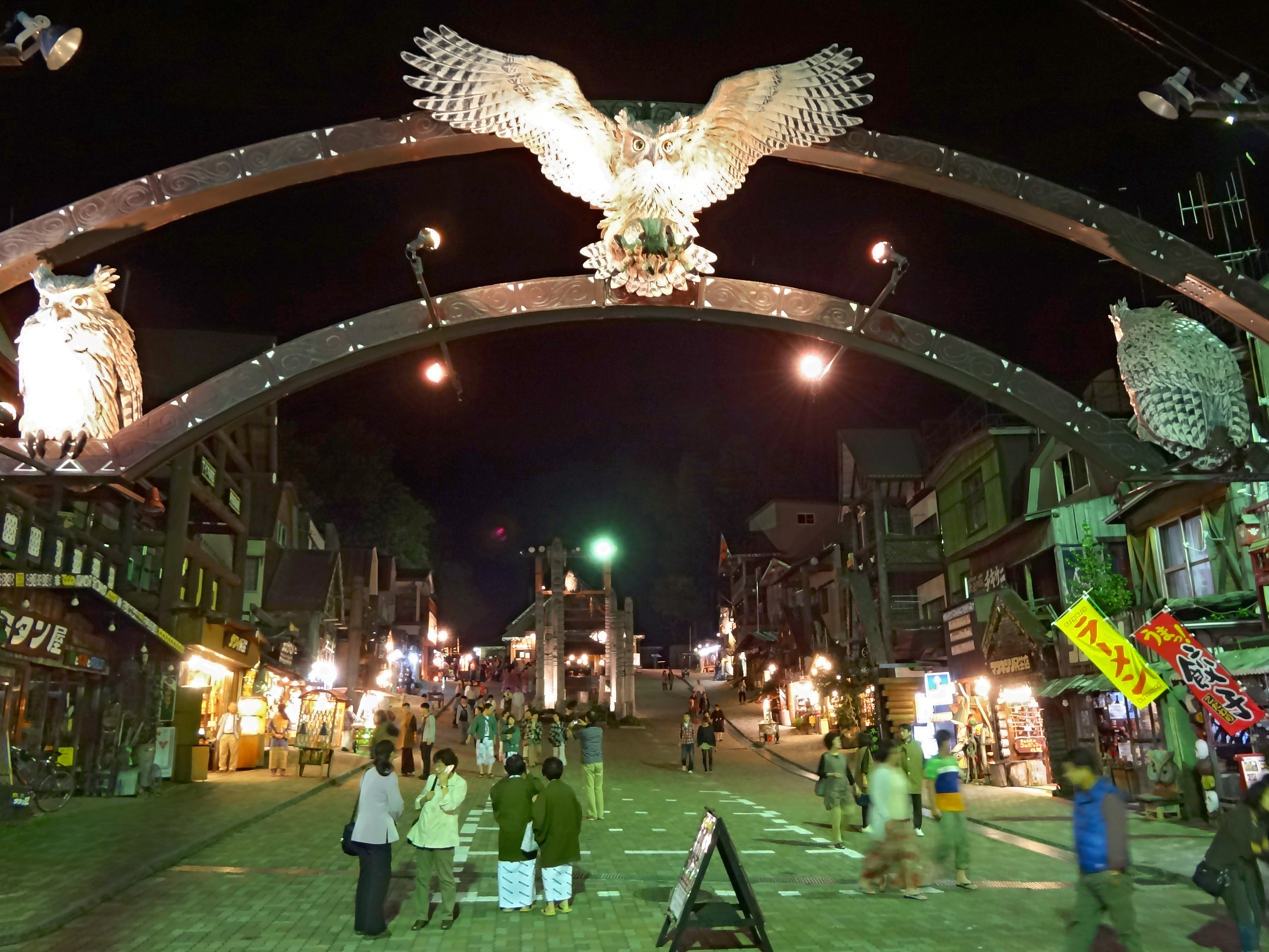 Kotan in Akan, Kushiro City, Hokkaido prefecture, Japan